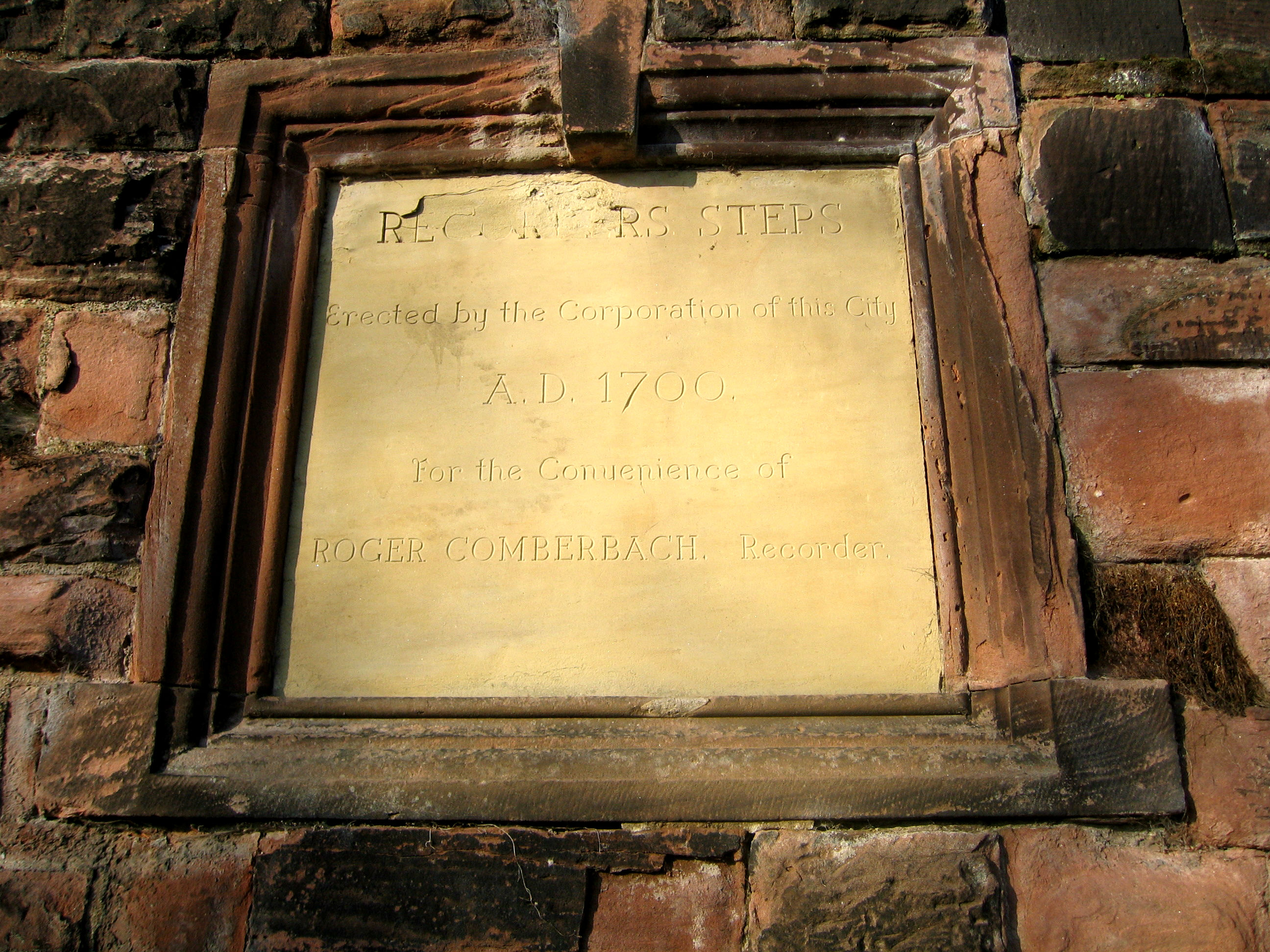 Photograph of the plaque on the Recorder's Steps, Chester City Walls